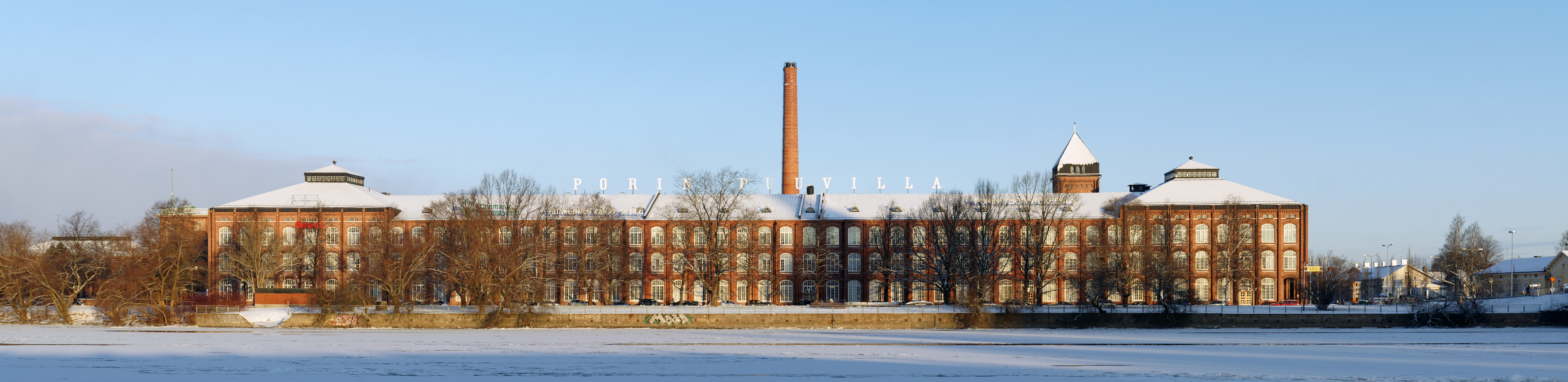 University Consortium of Pori, former Pori cotton factory.